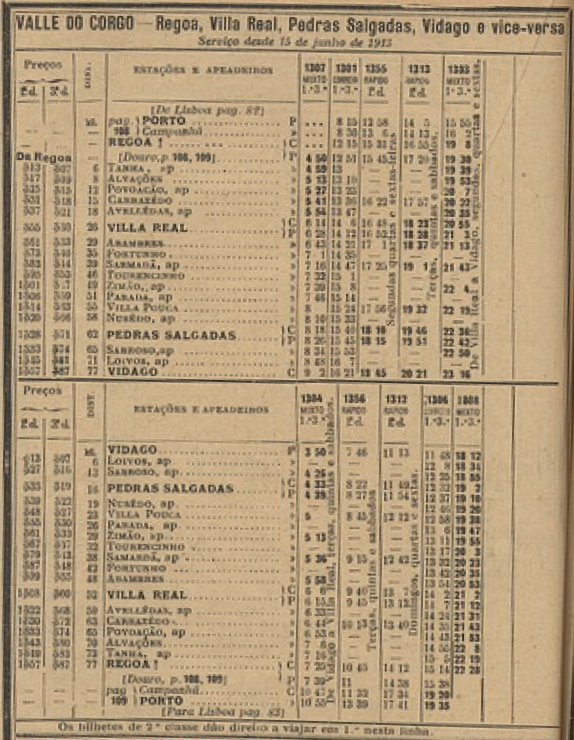 Timetable of the Linha do Corgo (Corgo Railway), in Portugal, on the 15th June 1913. This image was published on the Guia Official dos Caminhos de Ferro de Portugal No. 168, of October 1913, and scanned by the Biblioteca Nacional de Portugal.